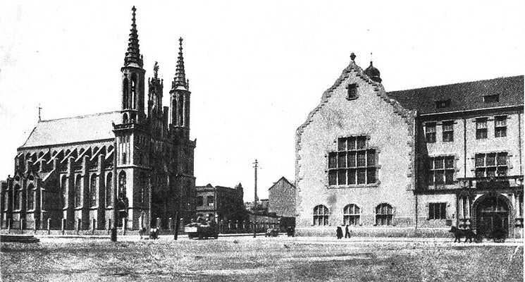 Church of the Immaculate Conception of the Blessed Virgin Mary. Taken from [1] This is a historic photograph showing a Roman Catholic Church in Baku before Joseph Stalin ordered it demolished in 1931. This is a historically significant photo of a building that no longer exists.